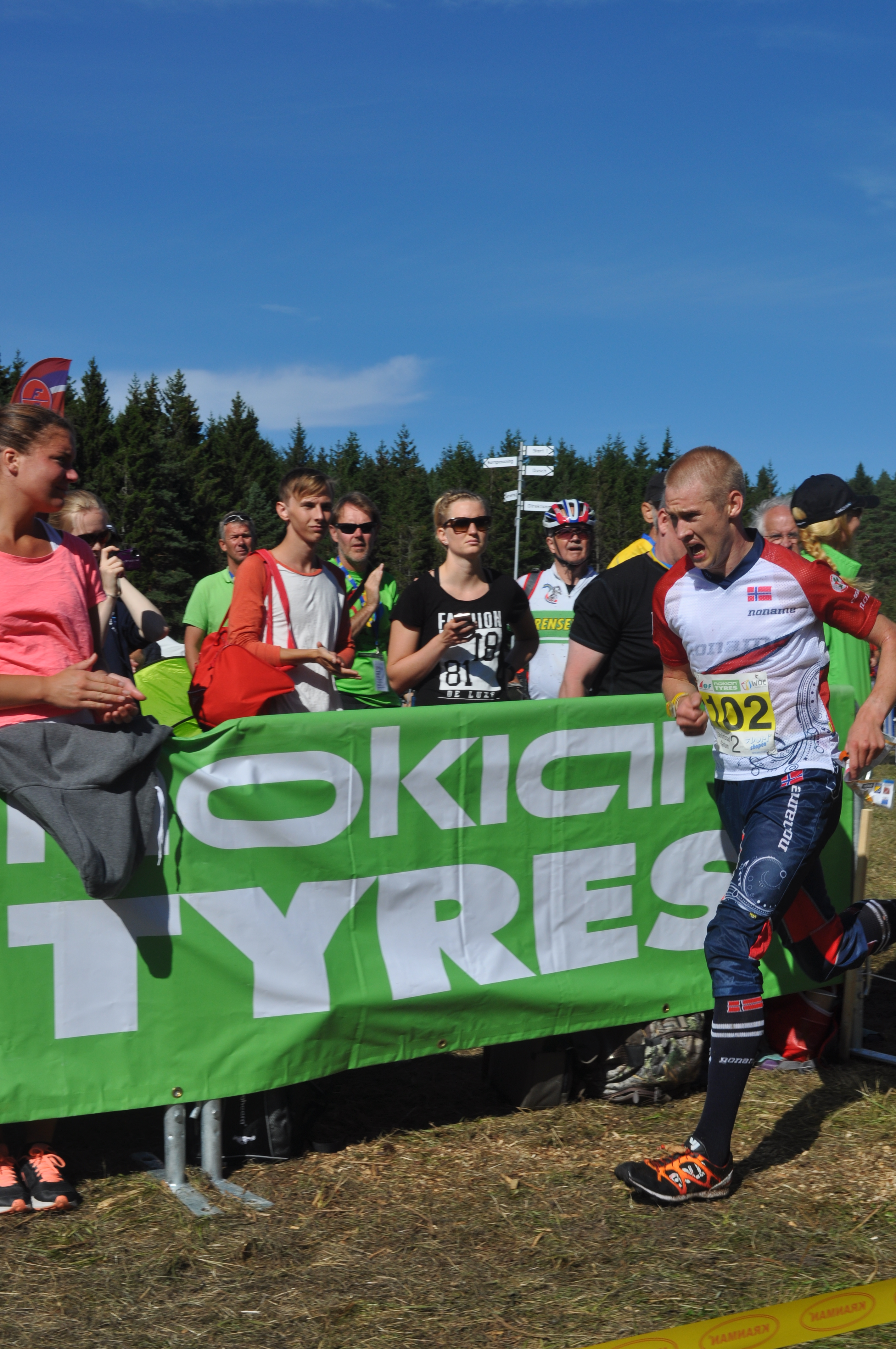 Olav Lundanes(Norway) passing through the arena at the second leg in the relay.